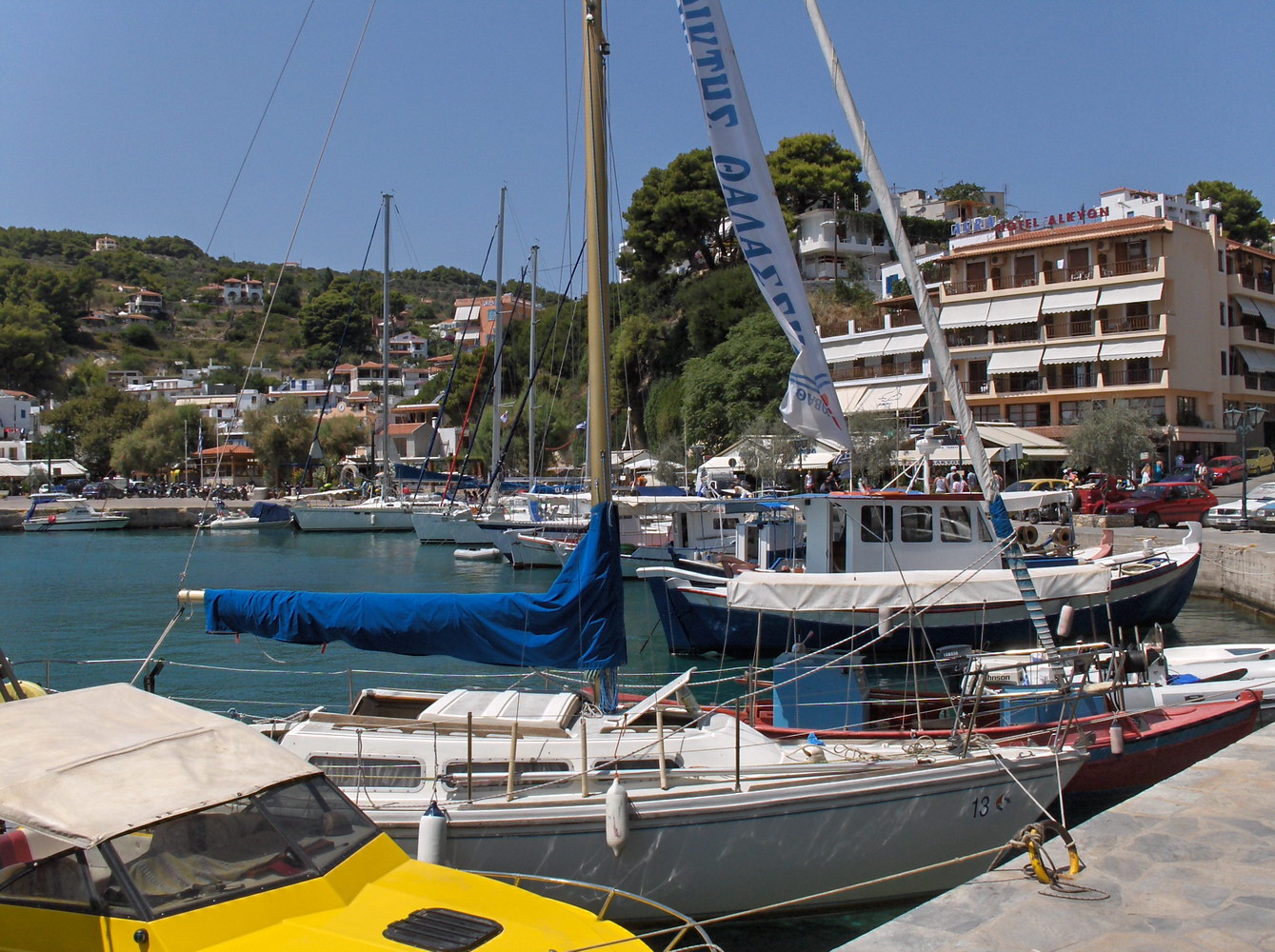 Patitiri port on the Greek island of Alonissos.